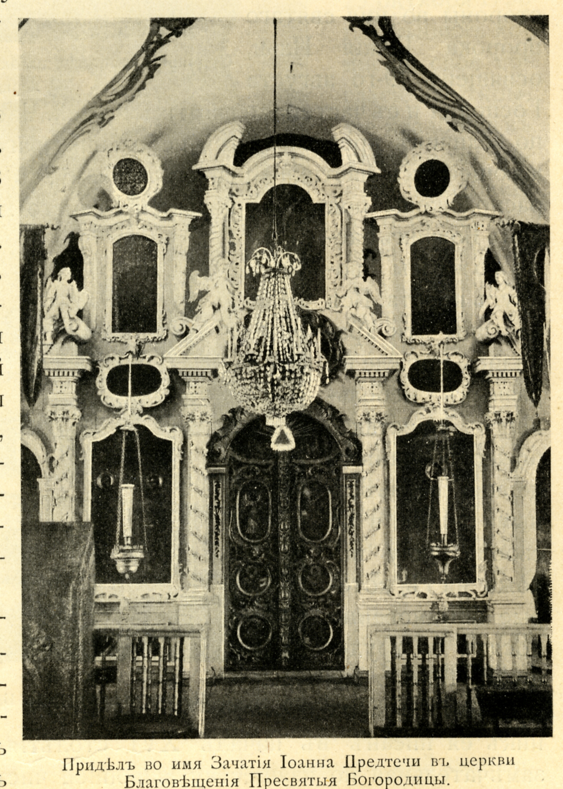 Saint Petersburg (Russia), Blagoveschenskaya Church